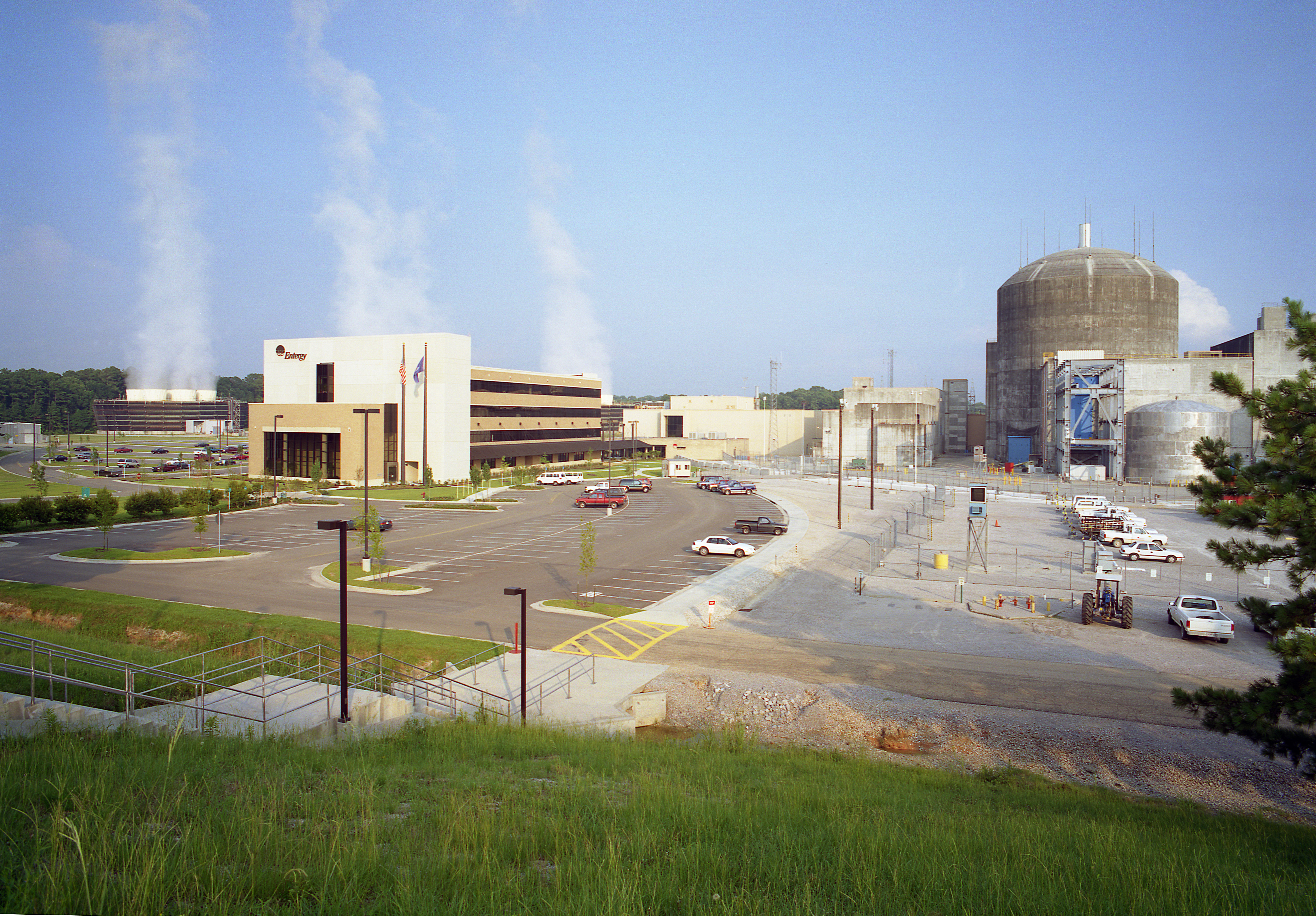 River Bend Station, Unit 1. The nuclear power plant is located near St. Francisville, LA (24 miles NNW of Baton Rouge, LA) in Region IV For information, go to . Photo courtesy of Entergy Nuclear©. More information on the NRC operating reactor facility page link at Visit the Nuclear Regulatory Commission's website at . To comment on this photo go to . Photo Usage Guidelines: Privacy Policy